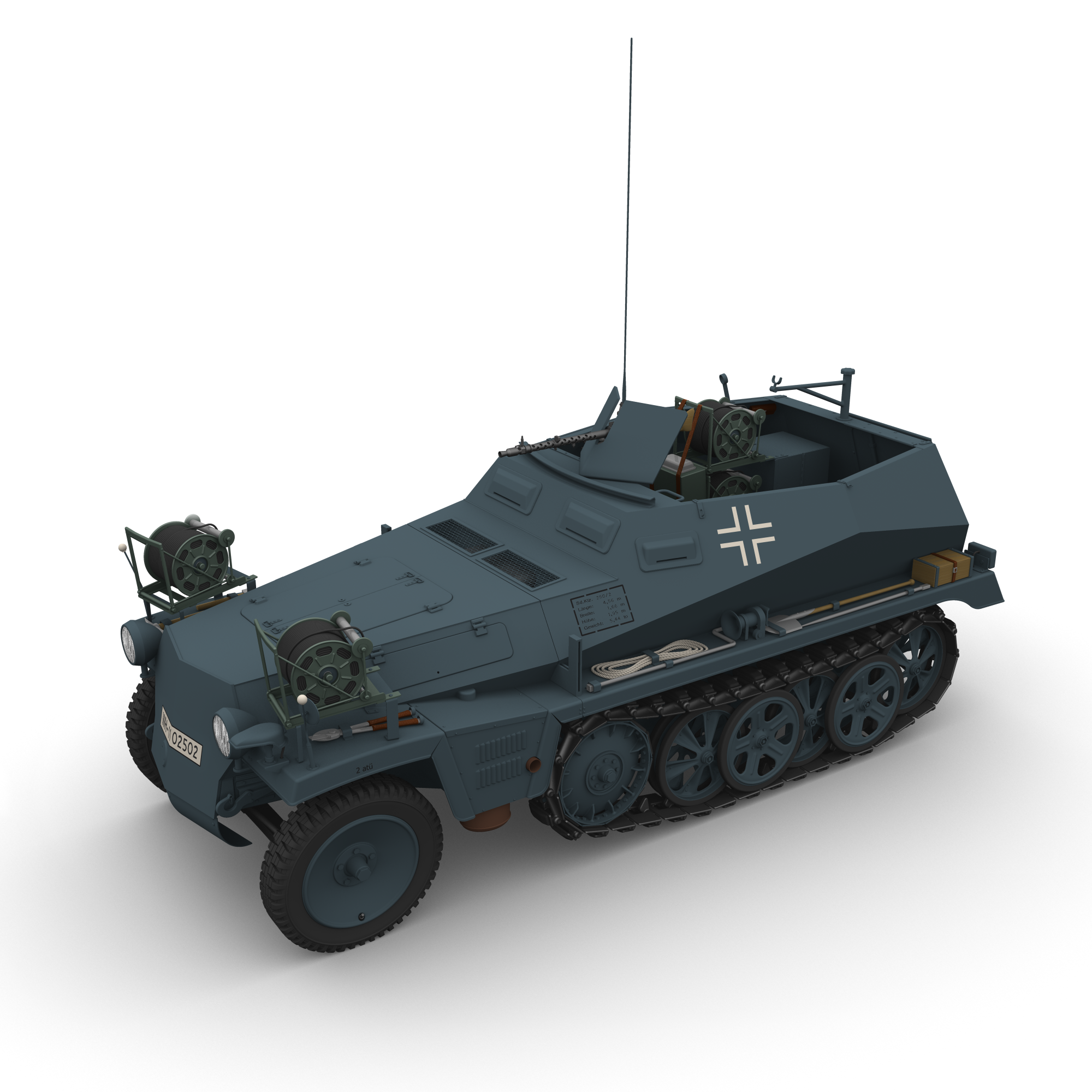 German armored cable-laying vehicle: Sd.Kfz. 250/2 (alt). 3D model, perspective view.